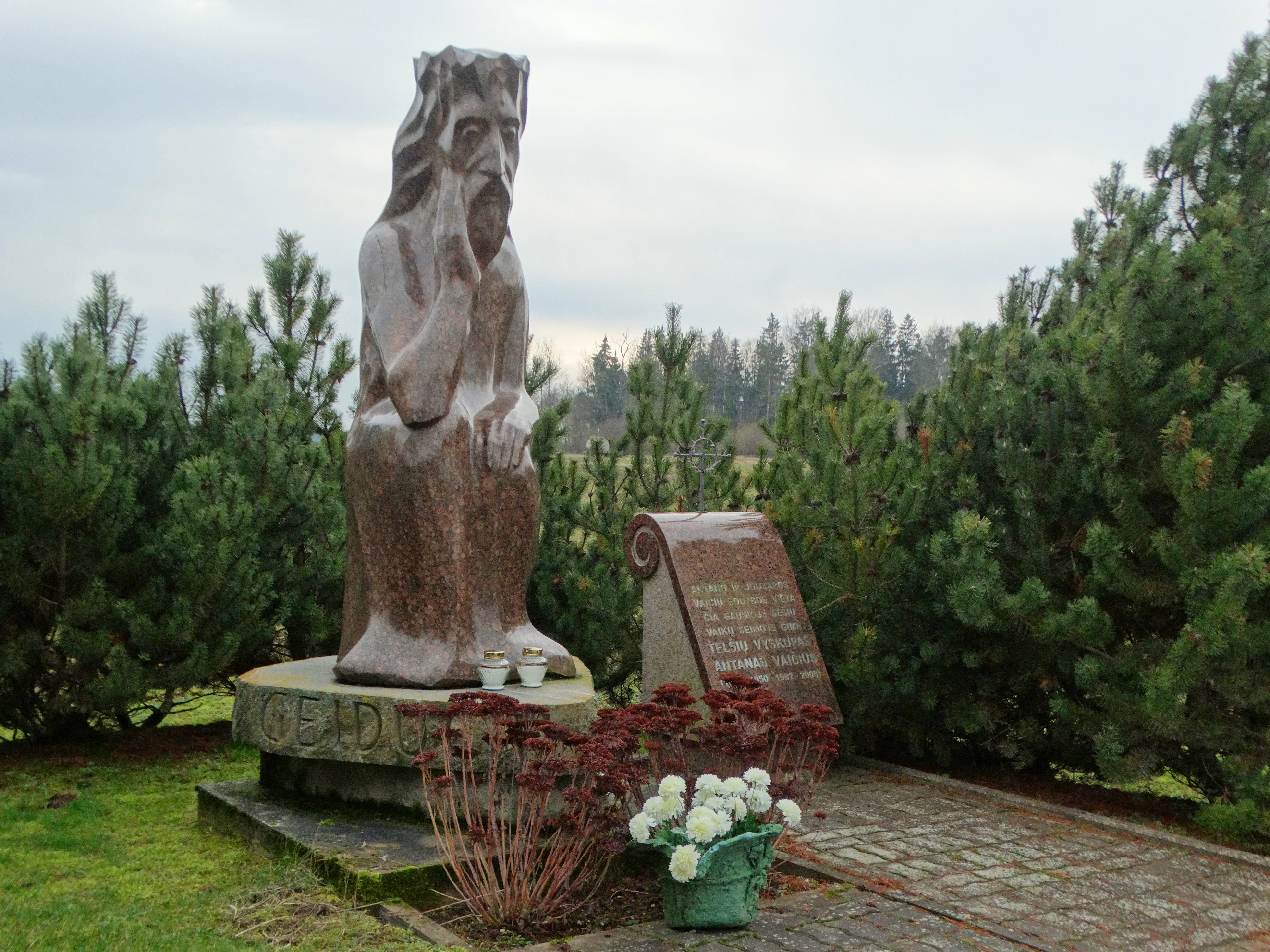 Pensive Christ in Geidučiai, dedicated tobishop Antanas Vaičius, Skuodas District, Lithuania